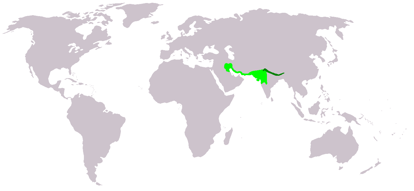 add some area in Iran, Bahrain, Kuwait, Iraq to file:Pycnonotus leucotis leucogenys map.png